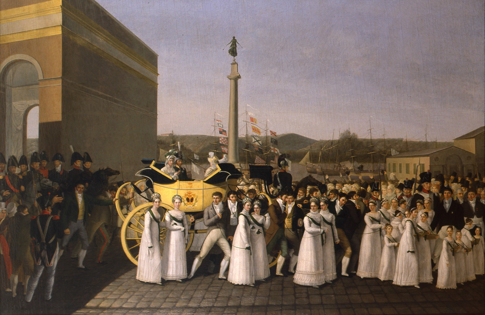 A painting depicting the arrival of Louis Antoine, Duke of Angoulême, and his consort Marie Thérèse, Madame Royale, in the city of Bordeaux on March 5, 1815.